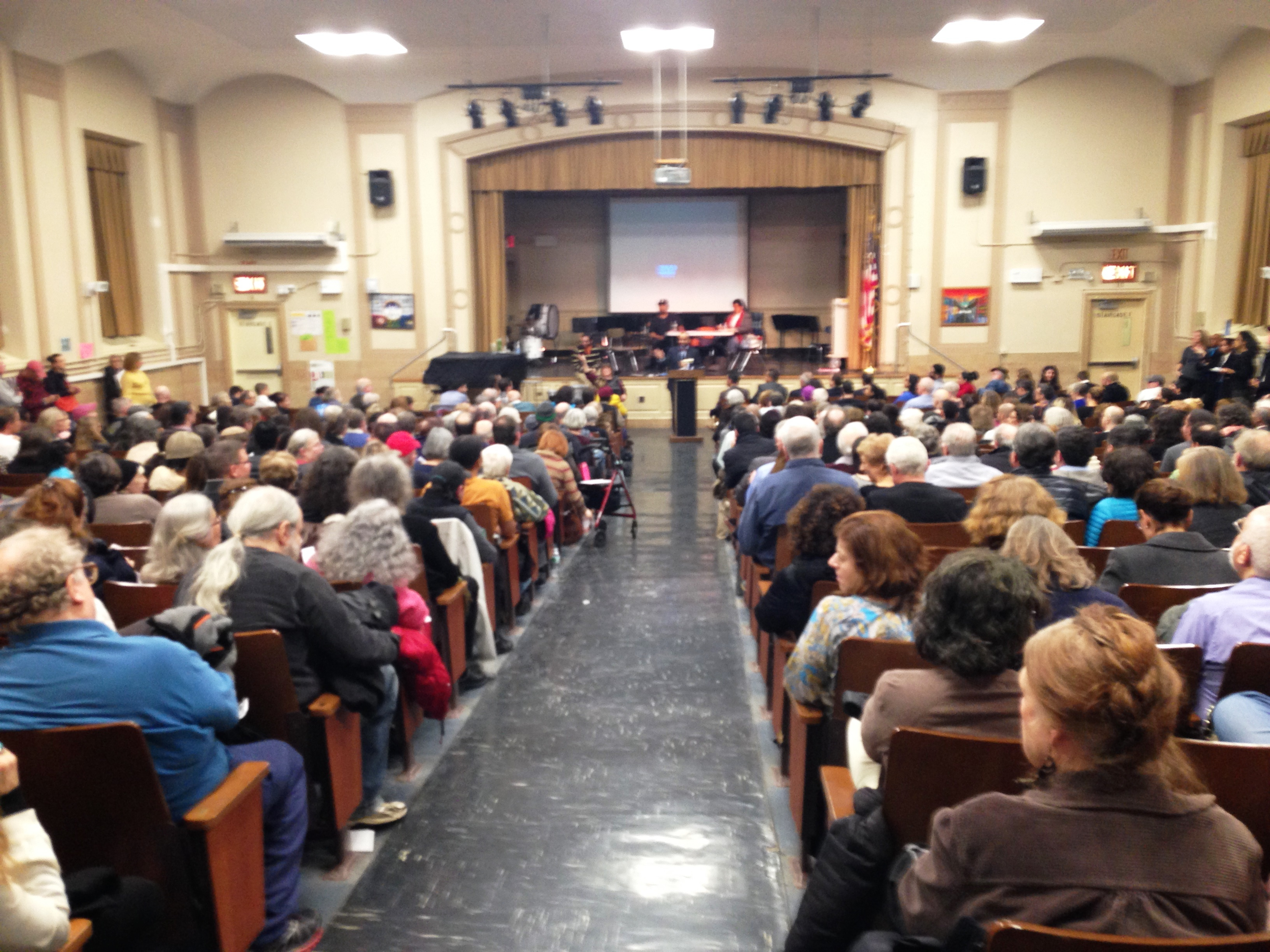 On February 2, 2016, Community Board 12 (Manhattan) held a public hearing in the auditorium of PS/IS 217 to hear the public's views concerning the possible loss of an Associated Supermarket, the only full-scale supermarket in the Hudson Heights neighborhood.